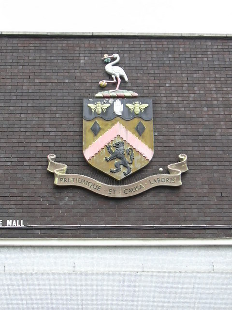 Burnley Crest, The Mall Shopping Centre